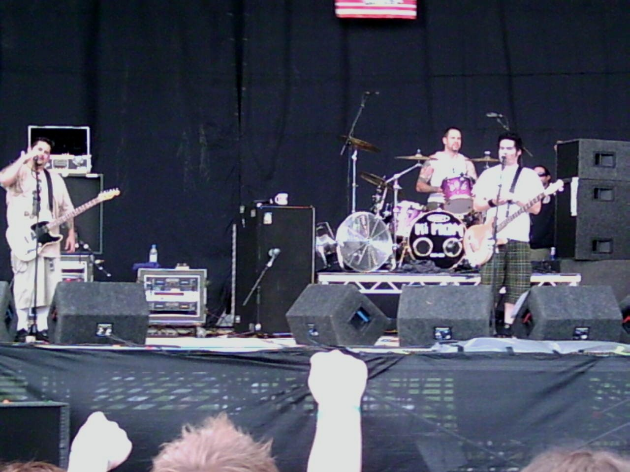 NOFX (El Hefe, Erik Sandin, Fat Mike) at Leeds Festival, England, 2005